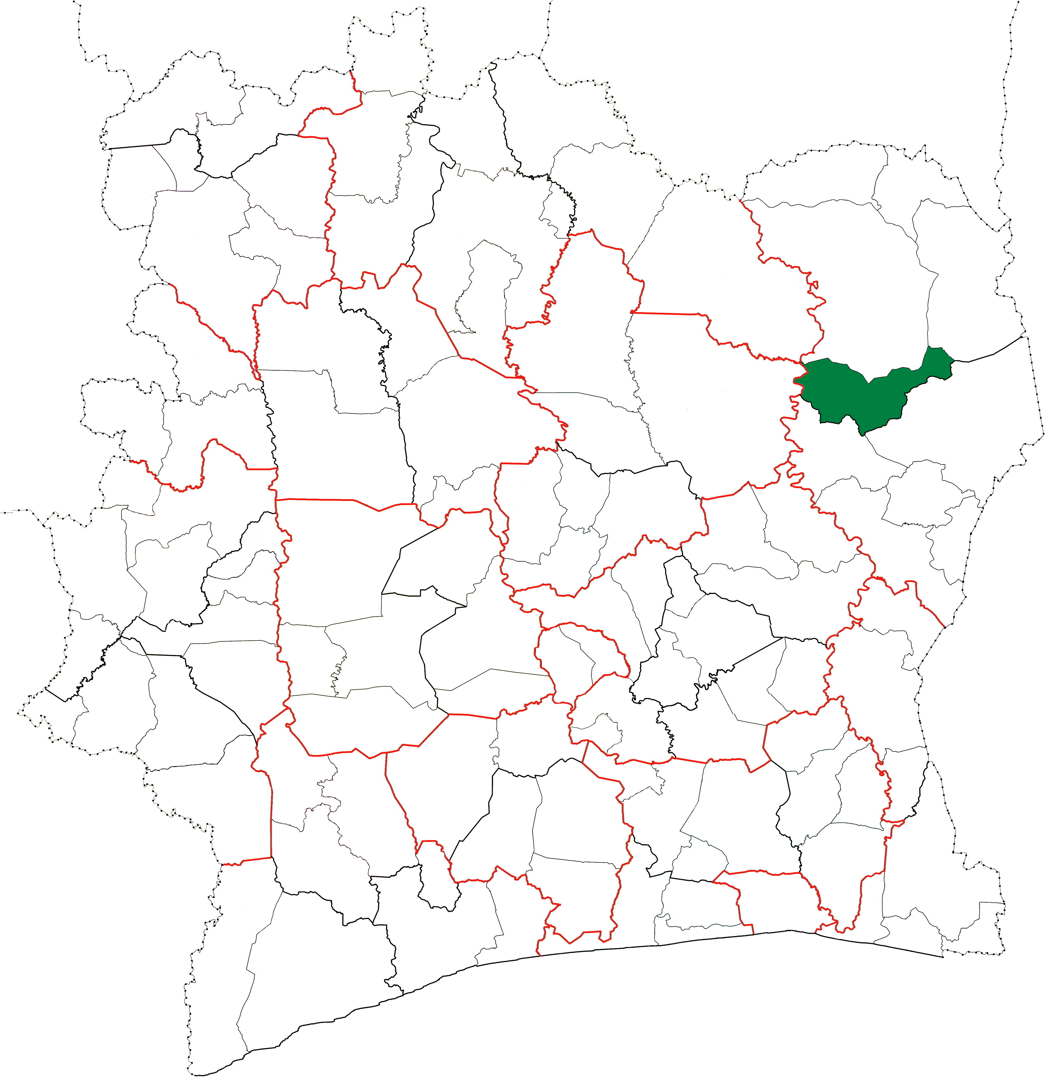 Locator map for Nassian Department in Côte d'Ivoire.